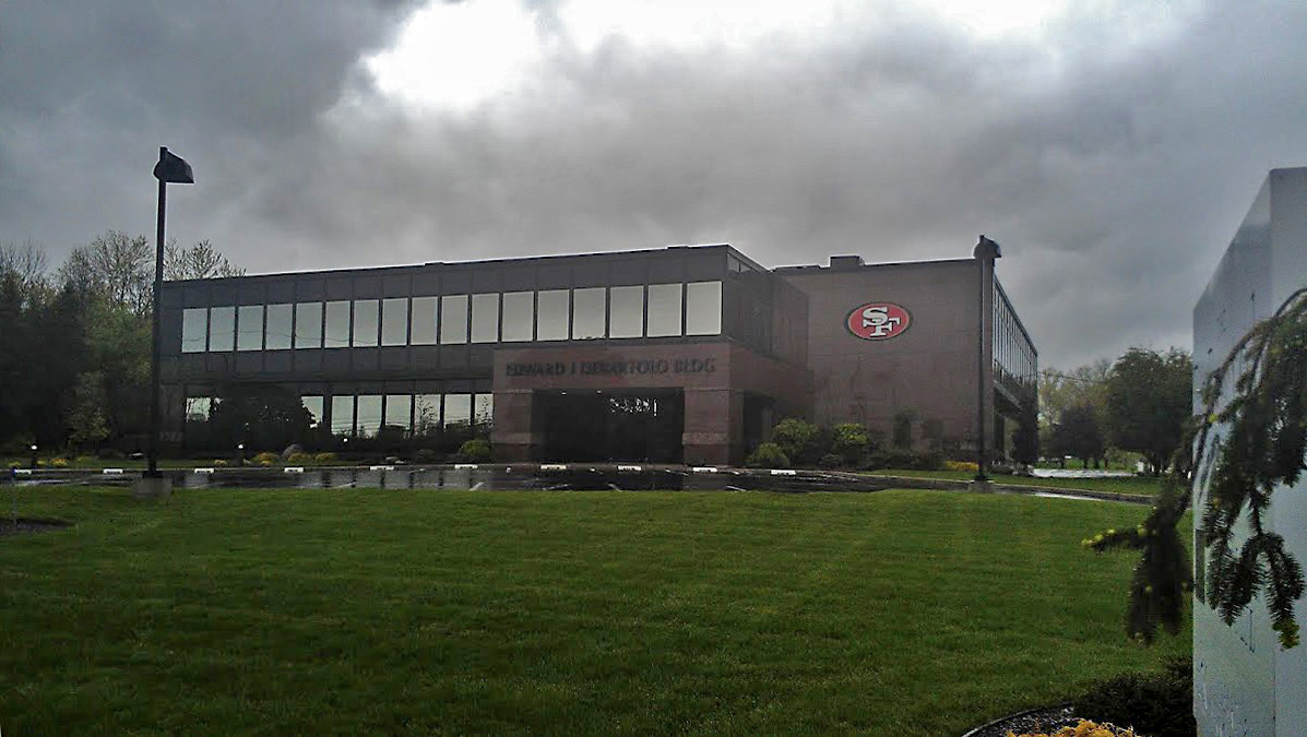 The headquarters of The DeBartolo Corporation. Took image myself.